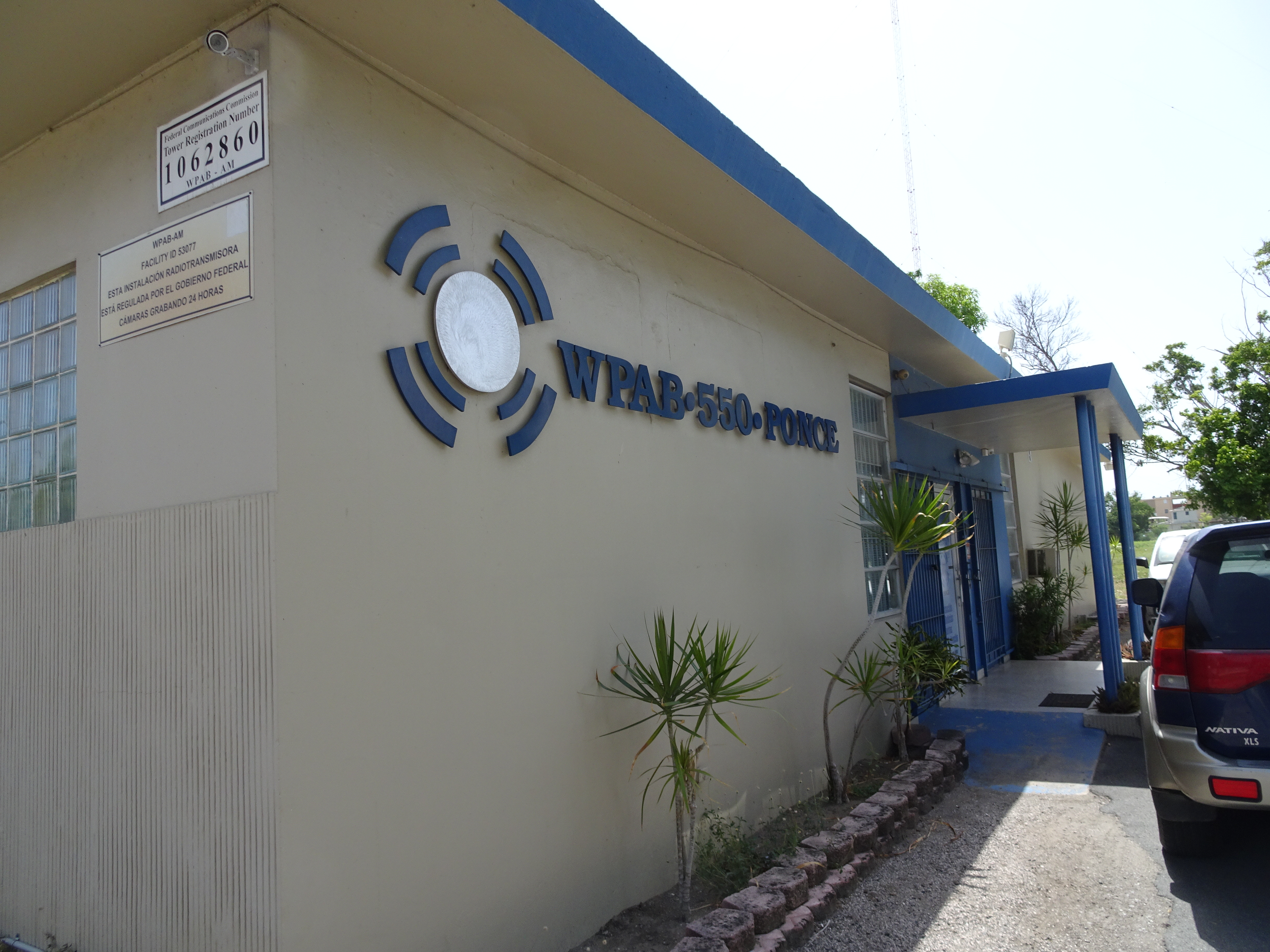 Radioemisora WPAB, PR-678, Bo. Playa, Ponce, Puerto Rico, mirando al oeste (DSC01372)